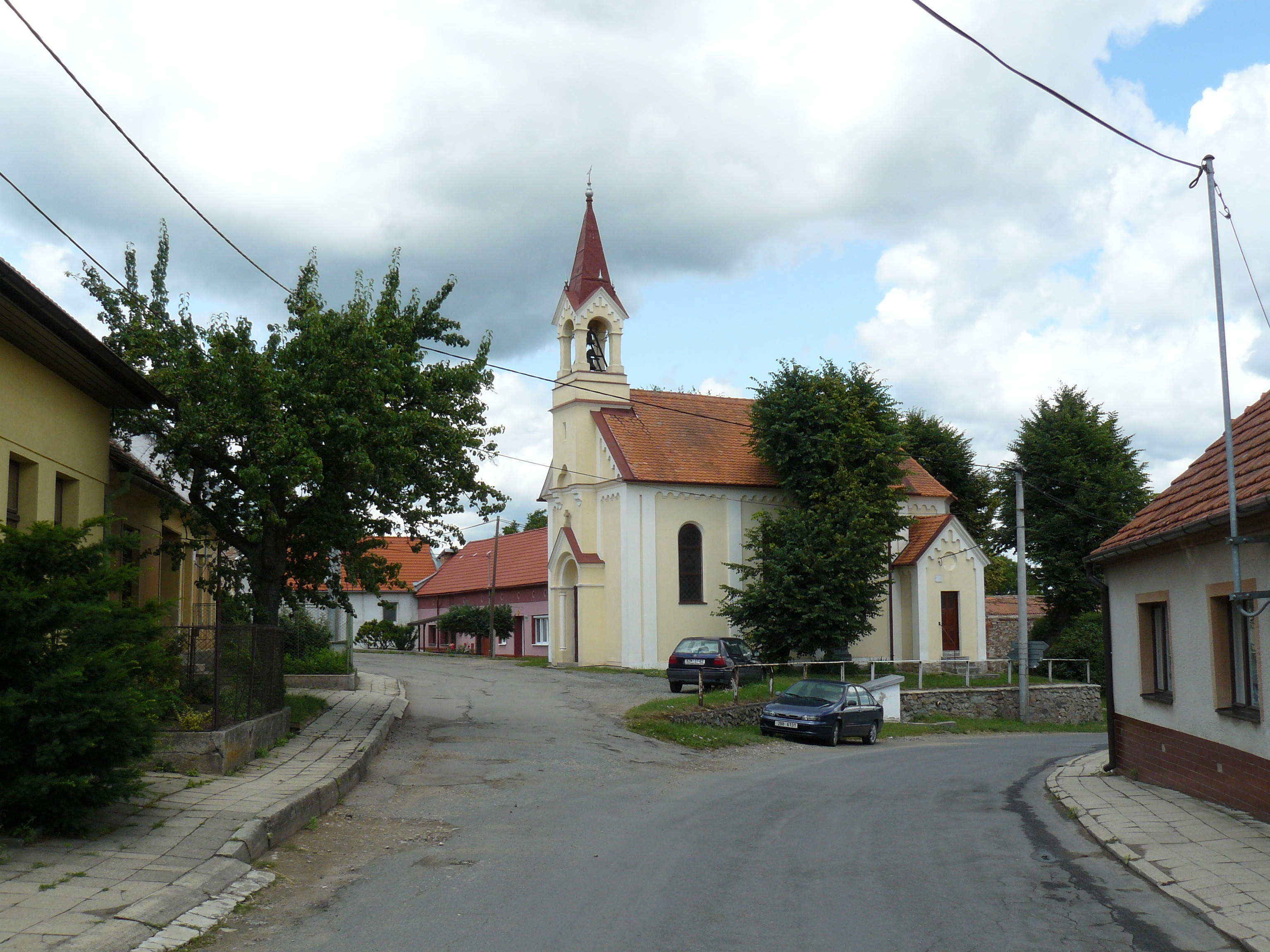 Polanka (Moravsky Krumlov) - village in Czech Republic